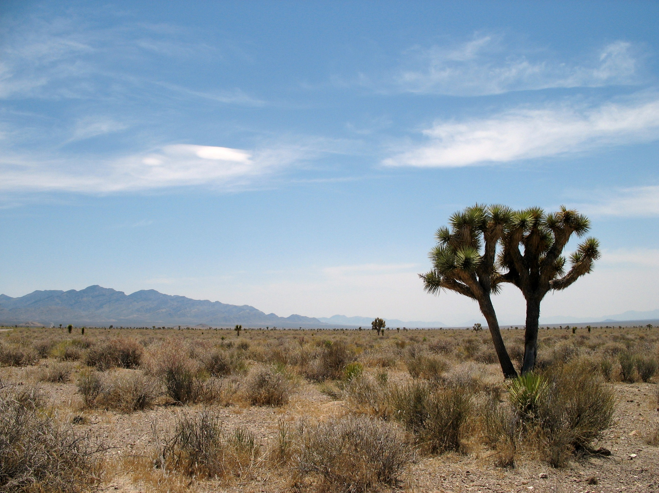 Yucca brevifolia in the Mojave Desert — southwestern Nevada. A Basin and Range desert.